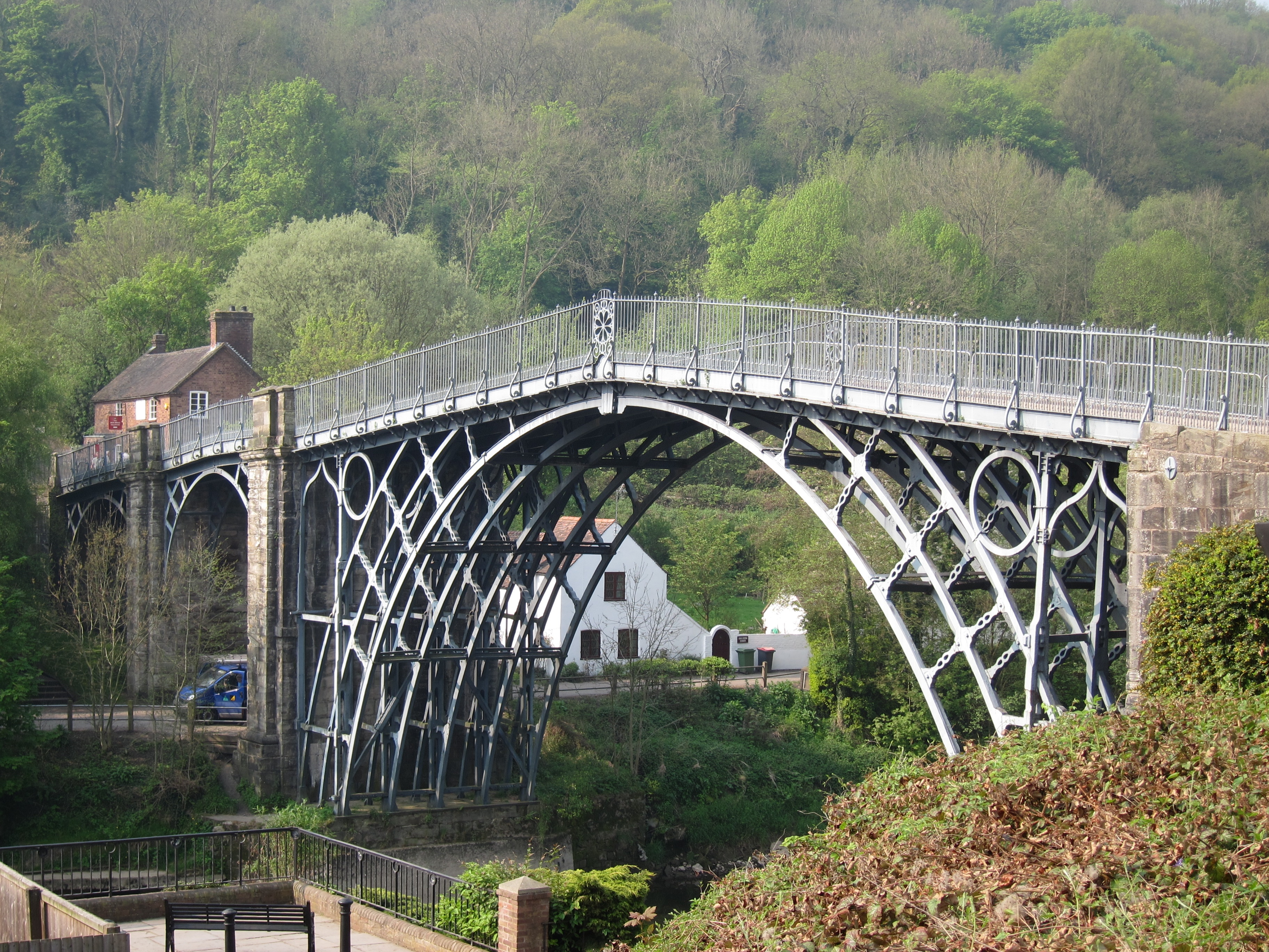 Built in 1779 it wasn't altogether a great success as its cost was greater than budgeted for, leaving its funder in debt for the rest of his life. Oh, and it suffered cracks shortly into its life.